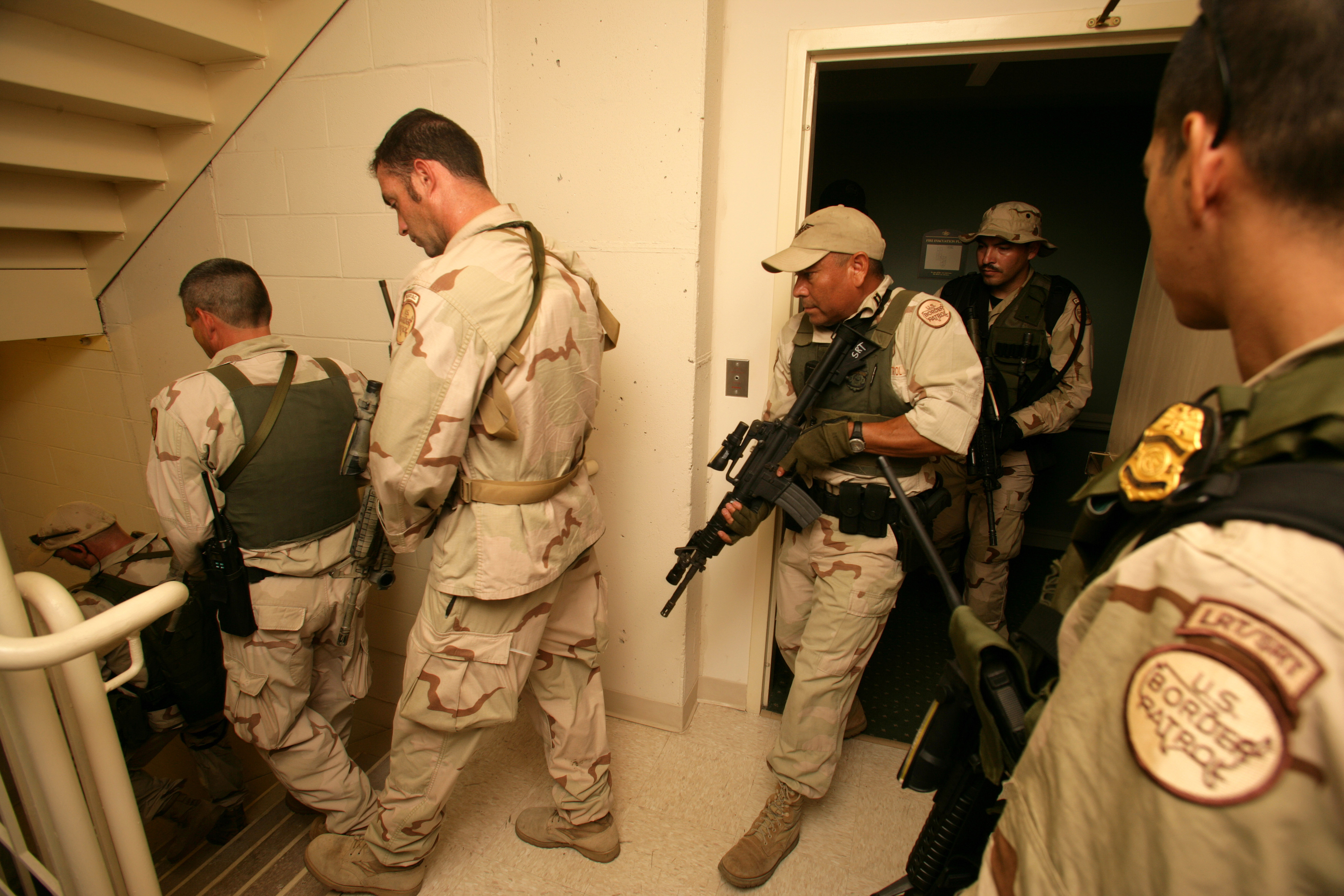 Summary CBP Supports Relief Effort photo by Gerald Nino 09/19/2005 U.S. Border Patrol Agents of the Sector Response Team (SRT) search an apartment building room by room in downtown New Orleans. SRT is the Border Patrol version of a SWAT Team and operates at the Sector Level. The Border Patrol also has a National Team known as BORTAC.